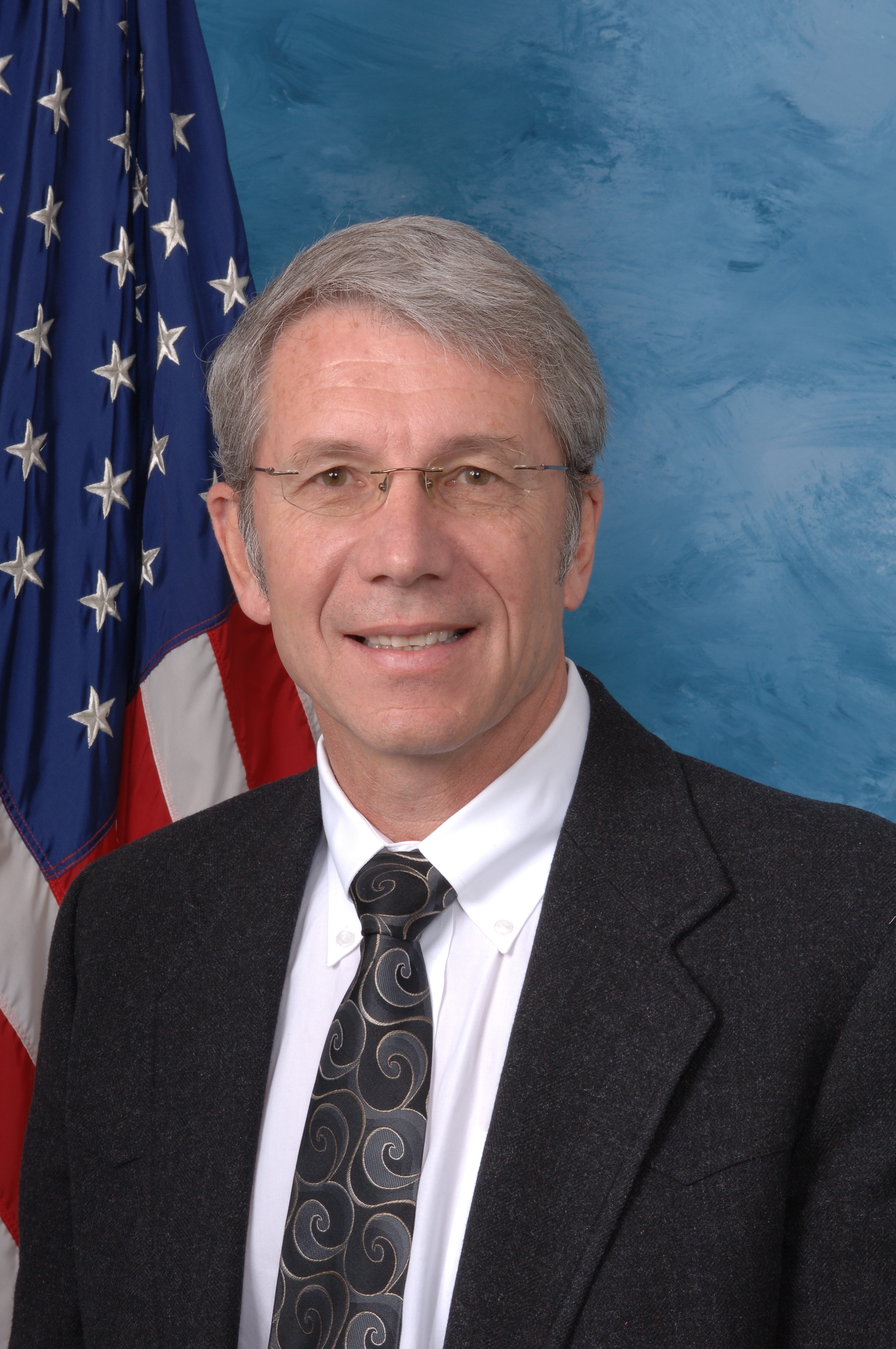 Kurt Schrader, member of the United States House of Representatives.